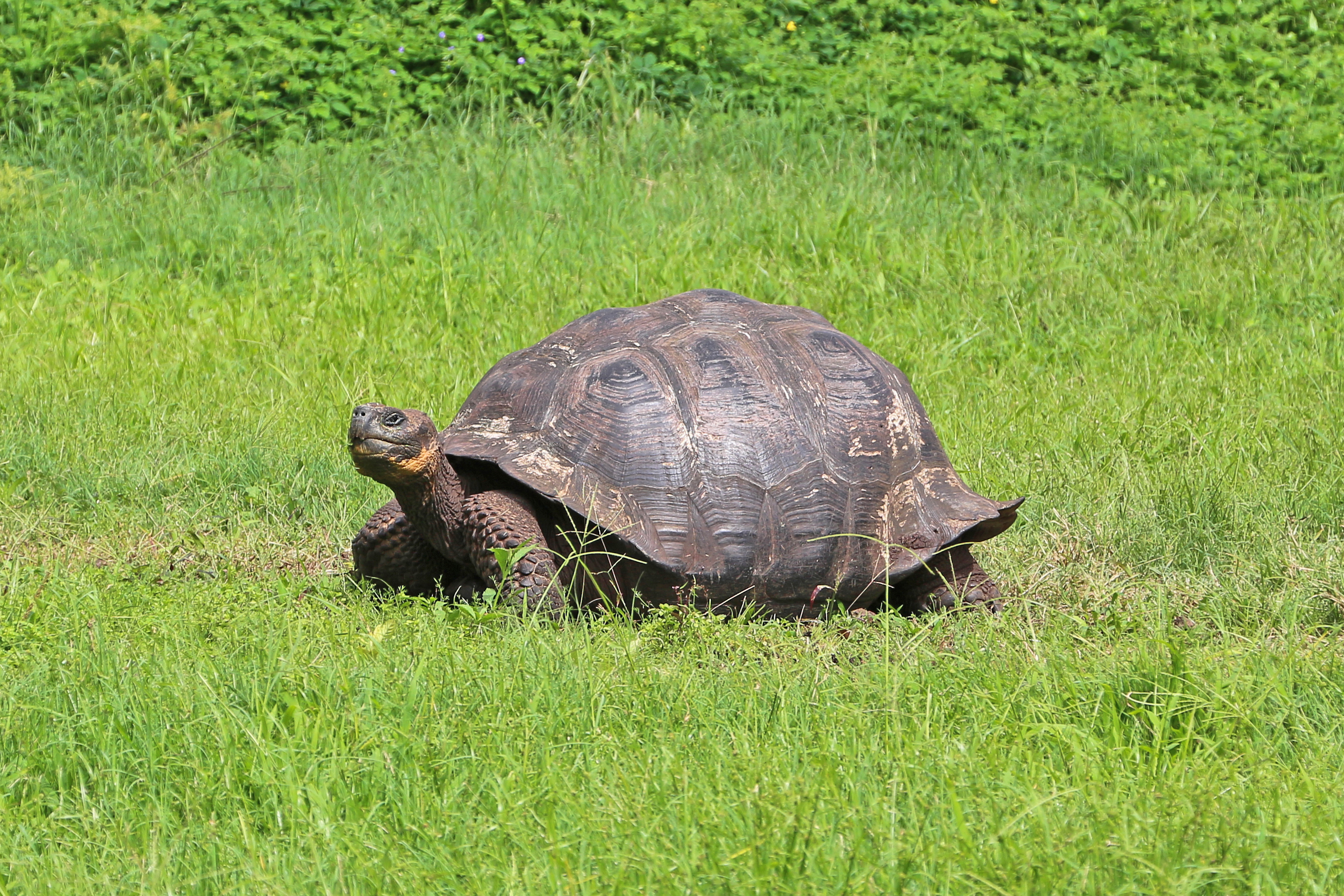 Santa Cruz giant tortoise (Chelonoidis porteri) in Santa Cruz Island, Galápagos National Park, Ecuador